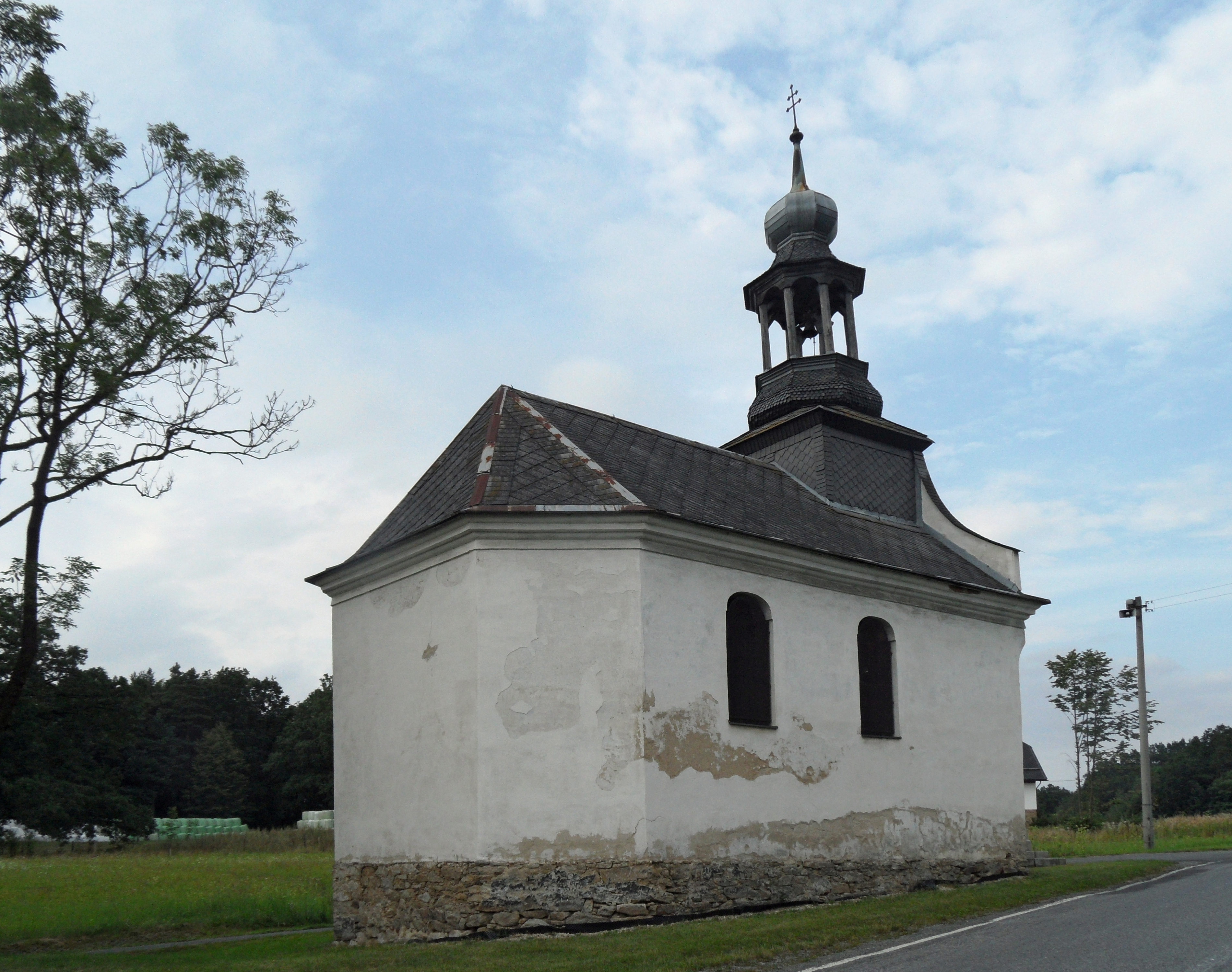 Rokliny: Chapel of the Nativity of the Virgin Mary: Overview. Jeseník District, the Czech Republic.